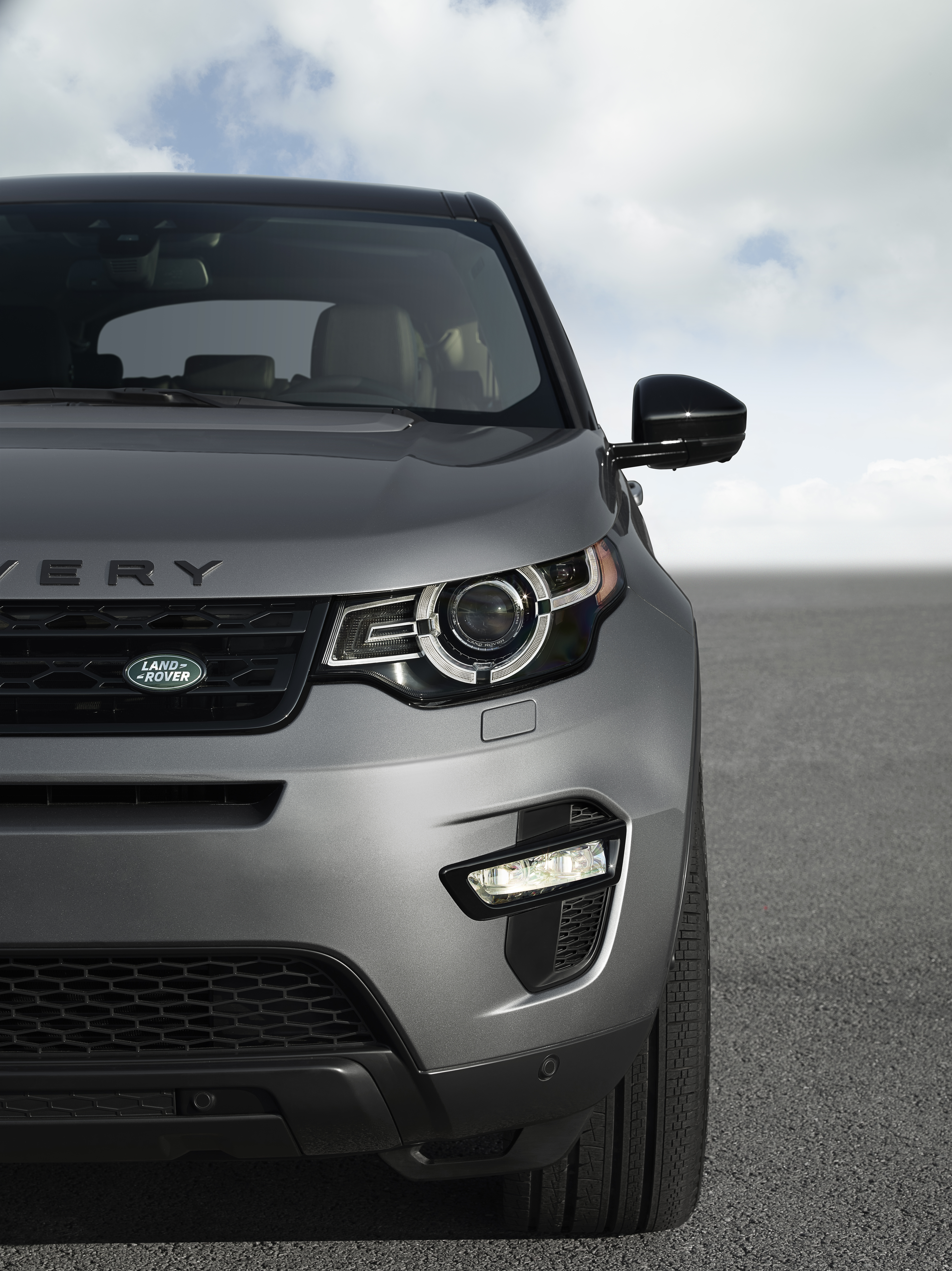 Land Rover has revealed the new Discovery Sport, the world’s most versatile and capable premium compact SUV. The first member of the new Discovery family, Discovery Sport, features 5+2 seating in a footprint no larger than existing 5-seat premium SUVs. Read all about it on